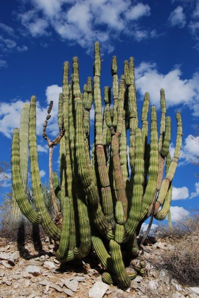 An organ pipe cactus (Stenocereus thurberi), at Organ Pipe Cactus National Monument, Southern Arizona.